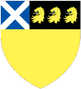 Shield of arms of The Lord Cramond